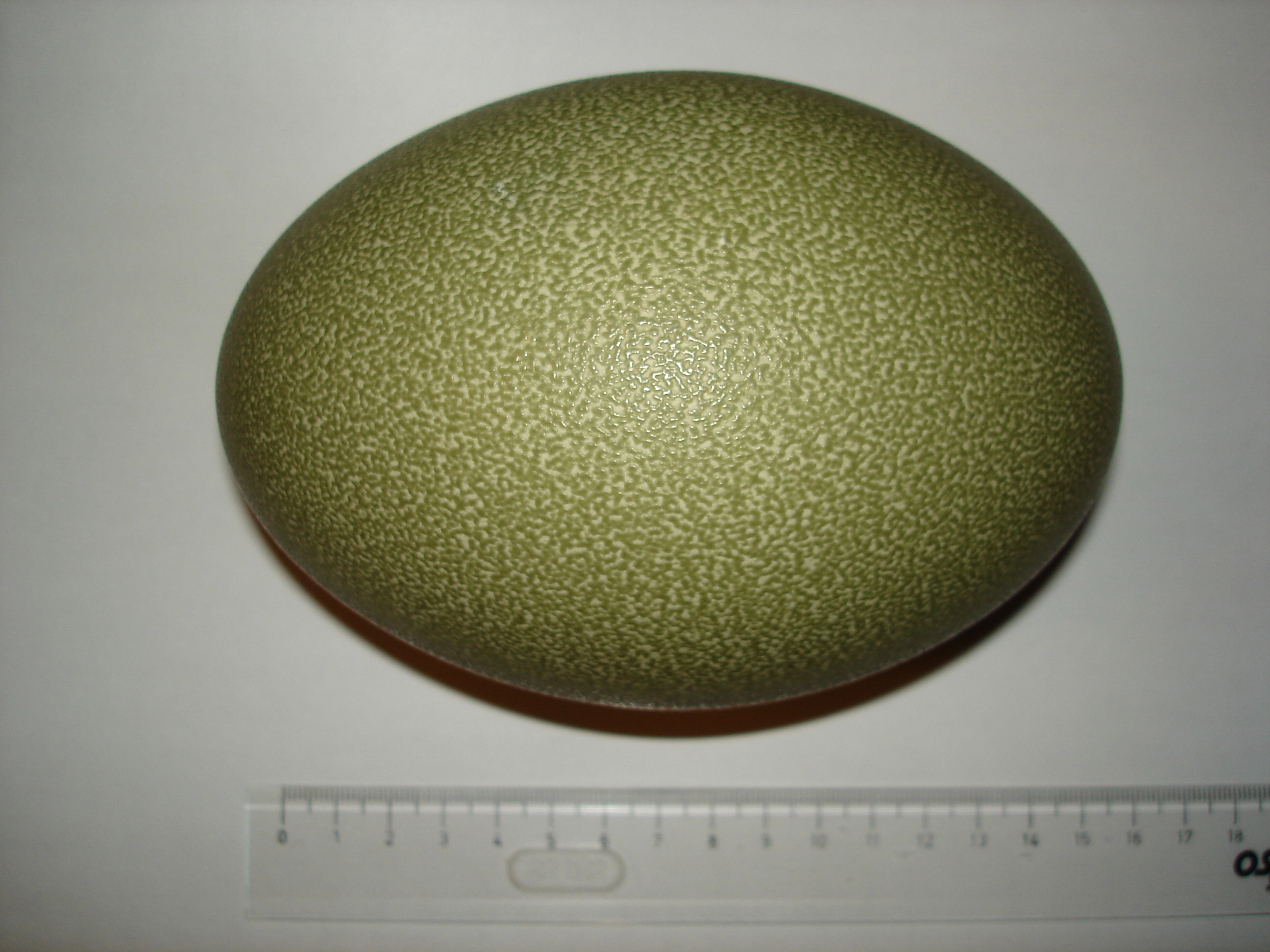 Casuarius casuarius, egg